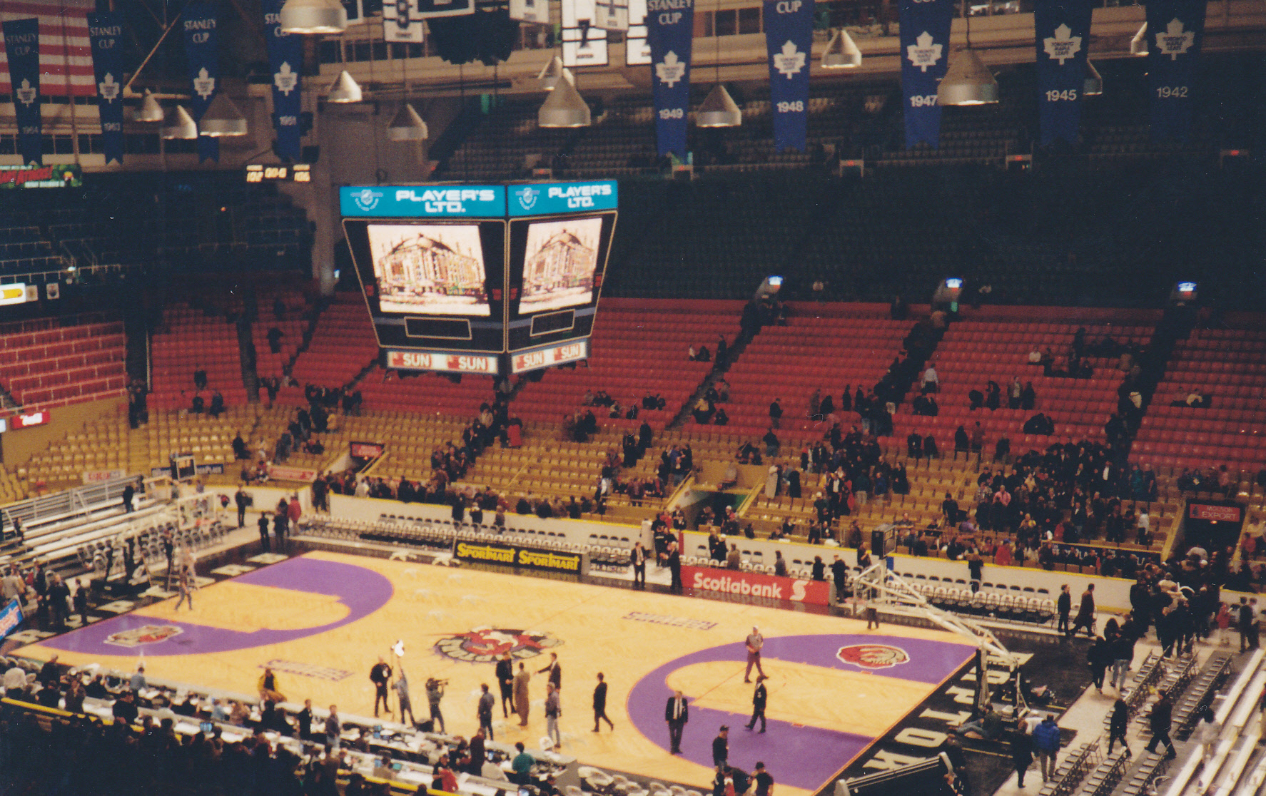 Maple Leaf Gardens Raptors vs Bucks 14 February 1997